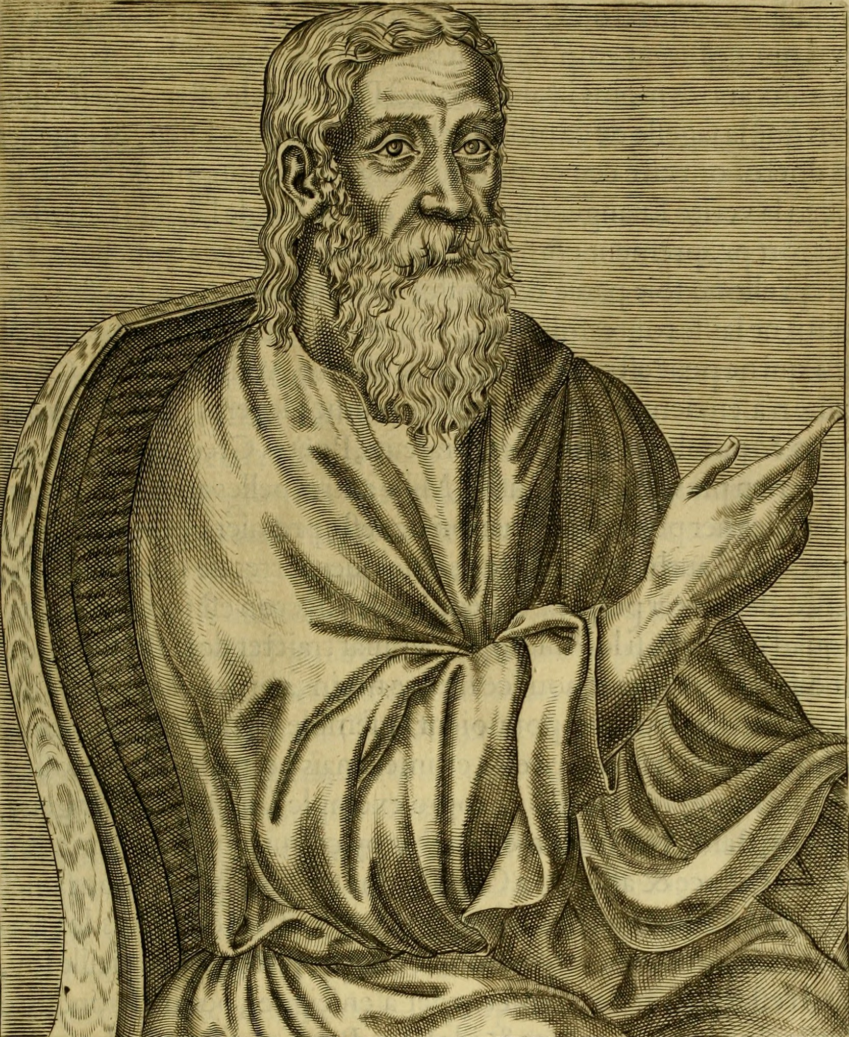 Clement of Alexandria, from book 1, folio 5 recto of Les vrais pourtraits et vies des hommes illustres grecz, latins et payens (1584) by André Thevet.